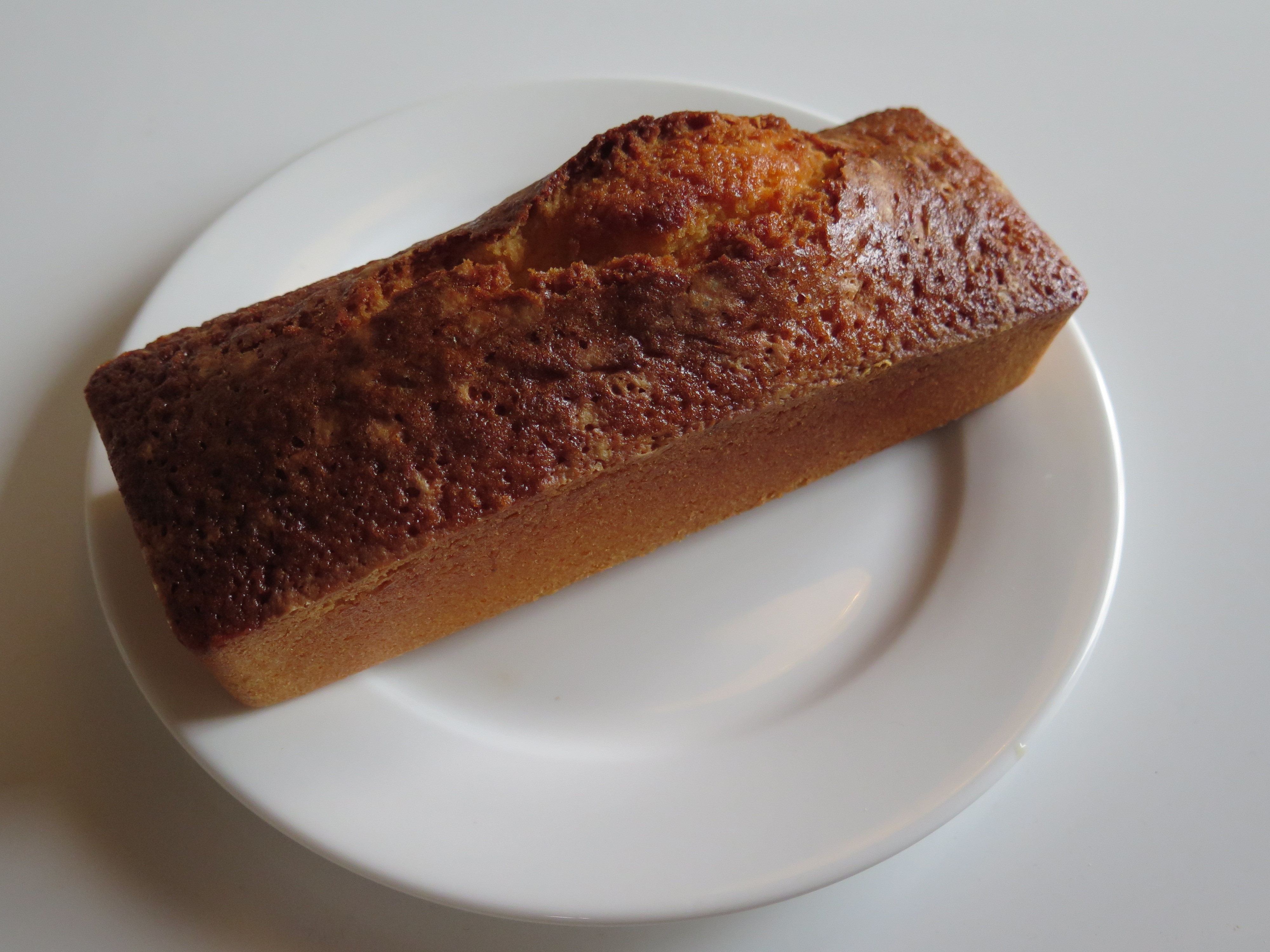 A pound cake on a white plate.